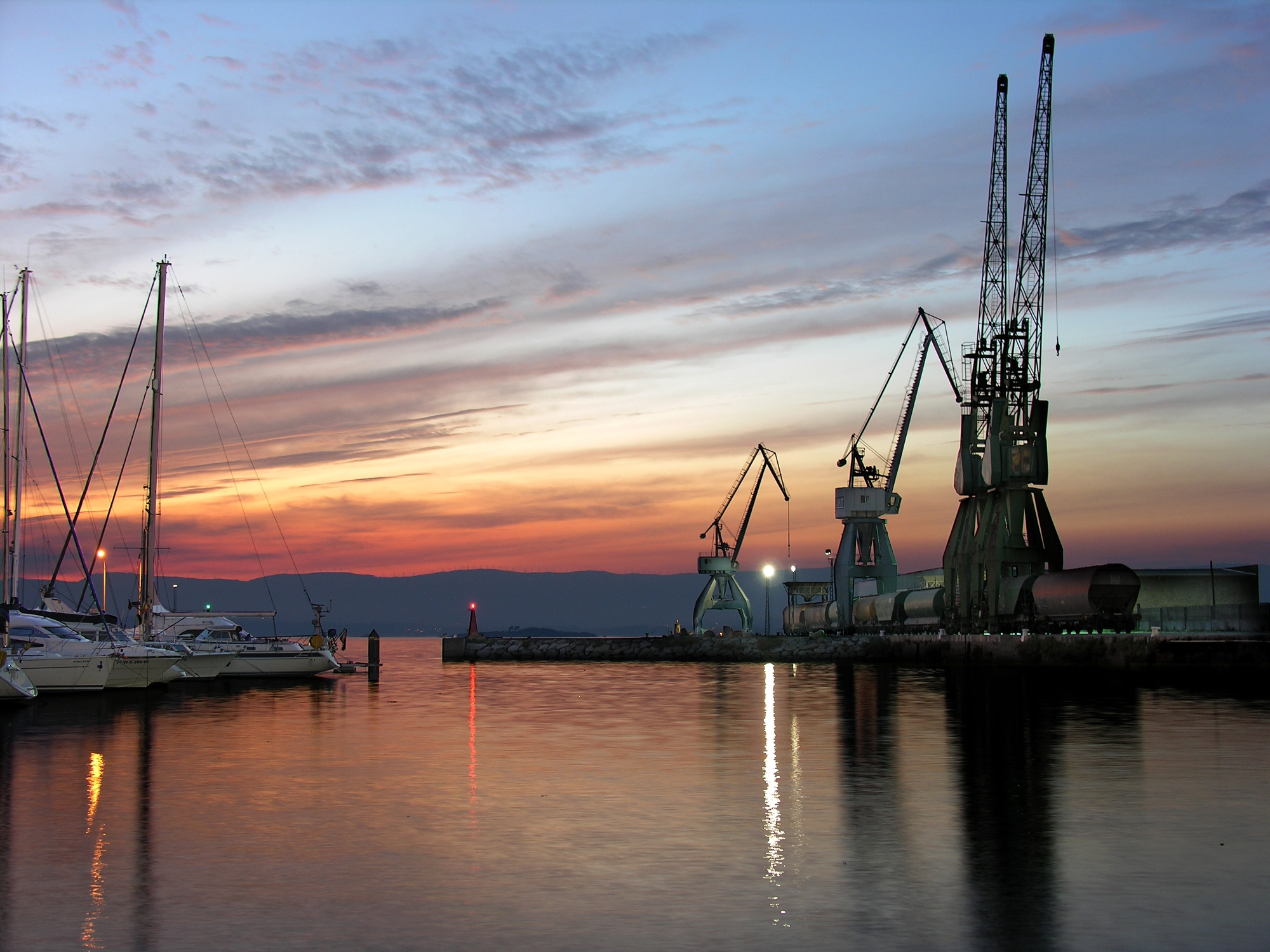 Vilagarcía de Arousa. Pontevedra, Galicia (Spain)